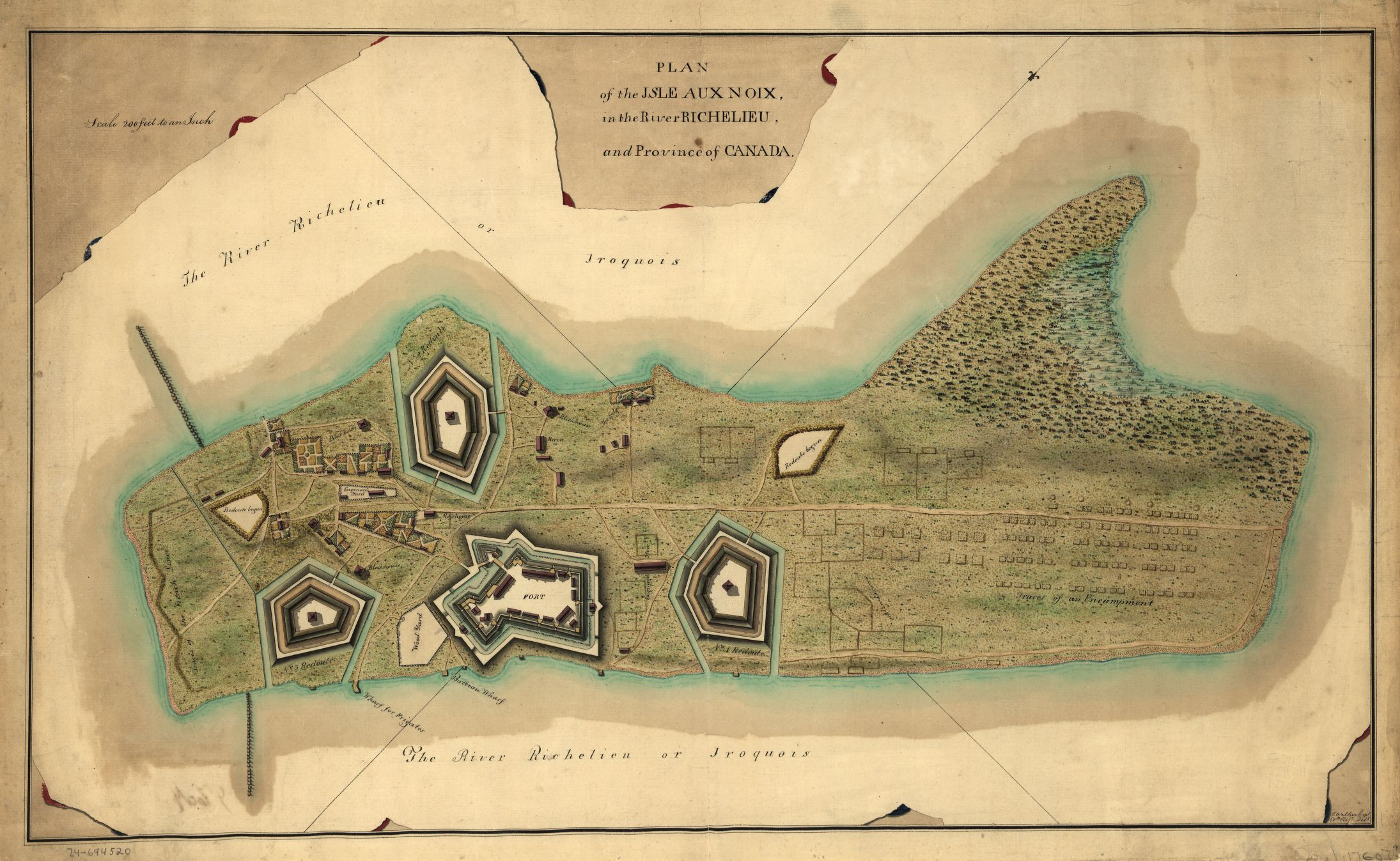 This is a map of fortifications on the Ile aux Noix, circa 1760. Caption reads: Plan of the Isle aux Noix, in the River Richelieu, and Province of Canada. [Signed:] T. Walker, Capt., 60th regt. delt.